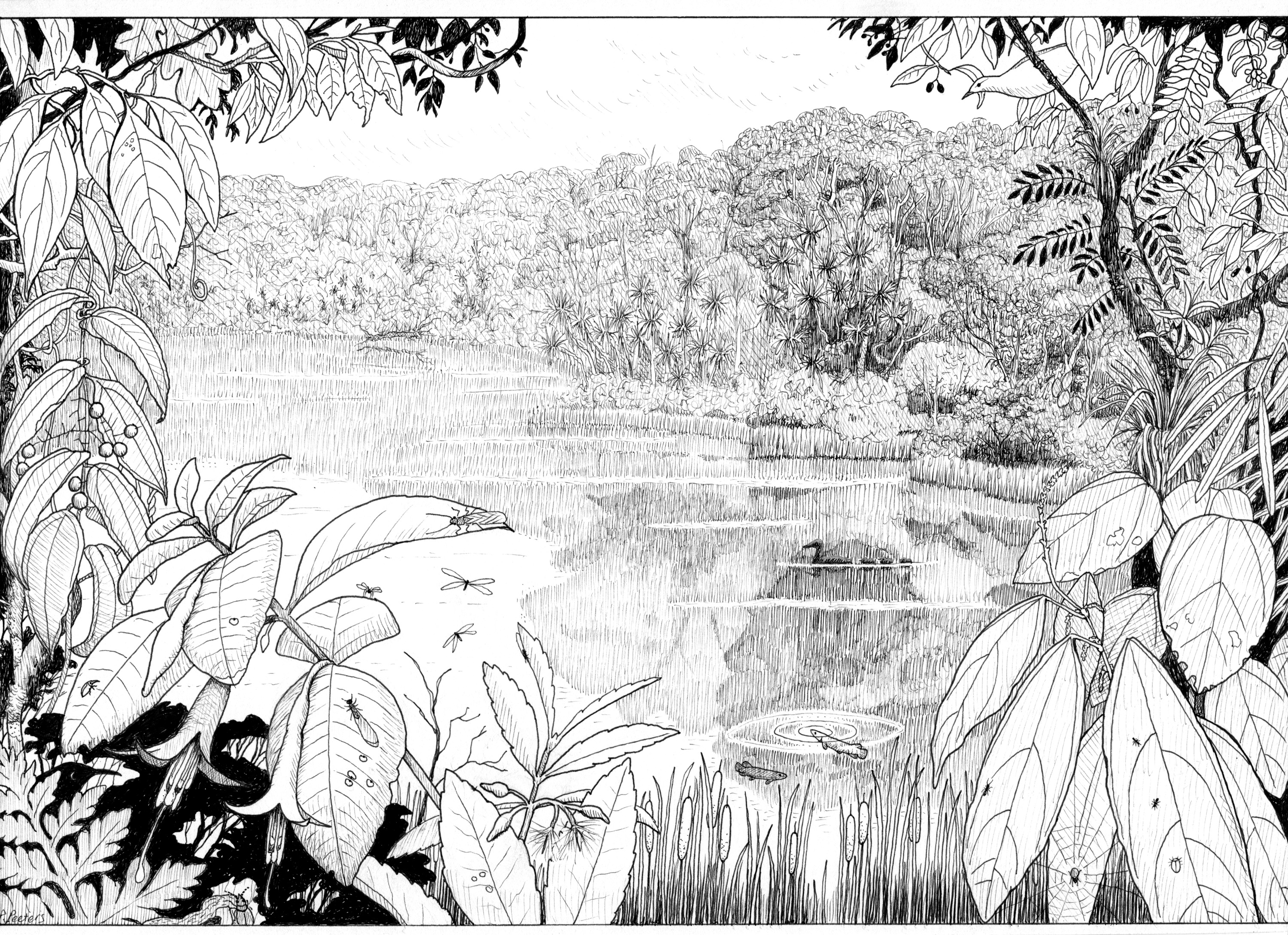 This reconstruction of the 23-million-year-old fossil lake deposit Foulden Maar (Q63687942) in Otago, New Zealand, was commissioned by palaeontologist Dr Daphne Lee and drawn by artist/ecologist Dr Paula Peeters. The preservation of the site is so good that individual flowers, leaves, and insects can be identified. The drawing appeared in Lee, D.E., Kaulfuss, U., Conran, J.G., Bannister, J.M. & Lindqvist, J.K., (August 2016). "Biodiversity and palaeoecology of Foulden Maar: an early Miocene Konservat-Lagerstätte deposit in southern New Zealand." Alcheringa 40.